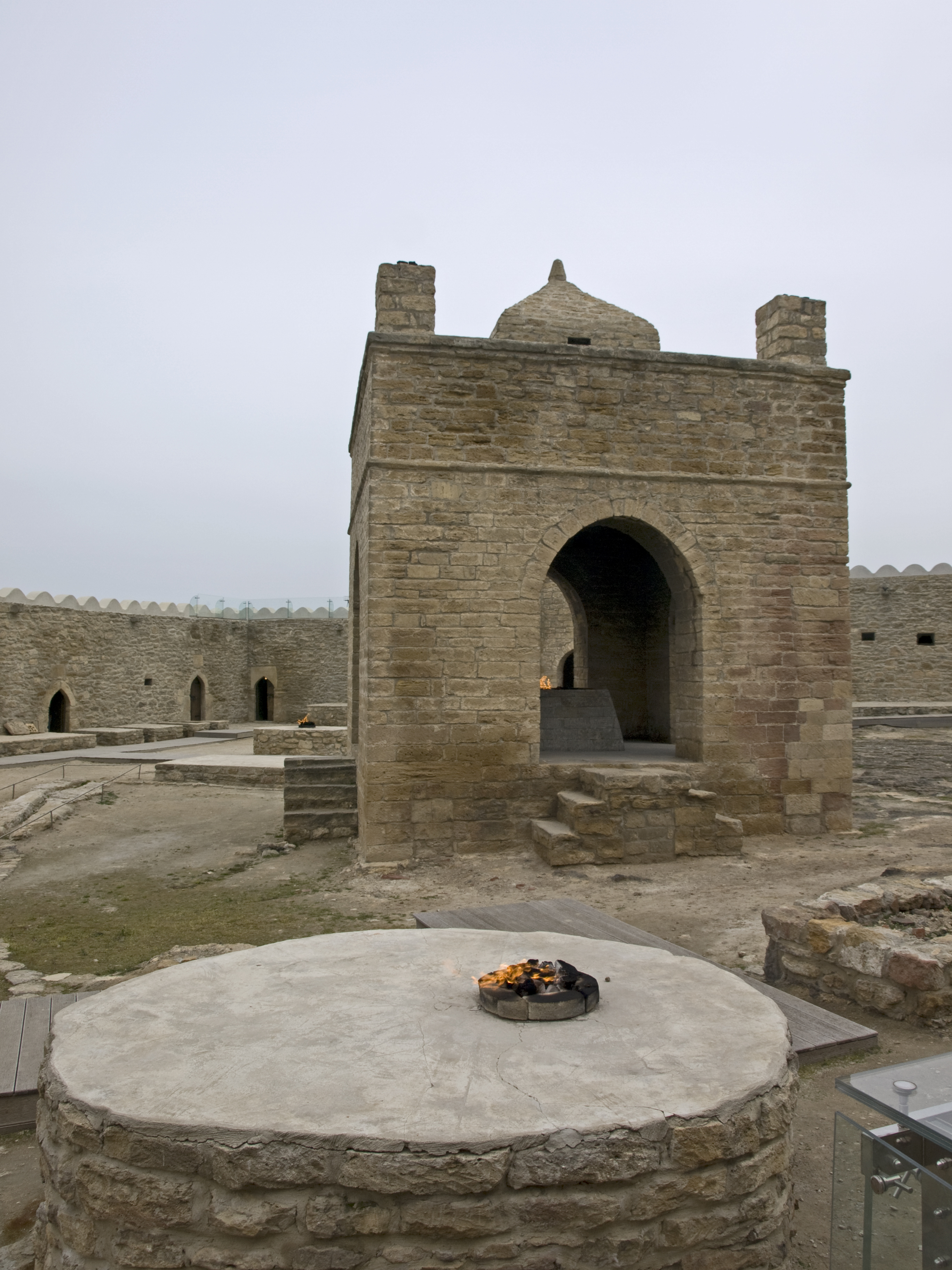 Fire Altar, Ateshgah of Baku